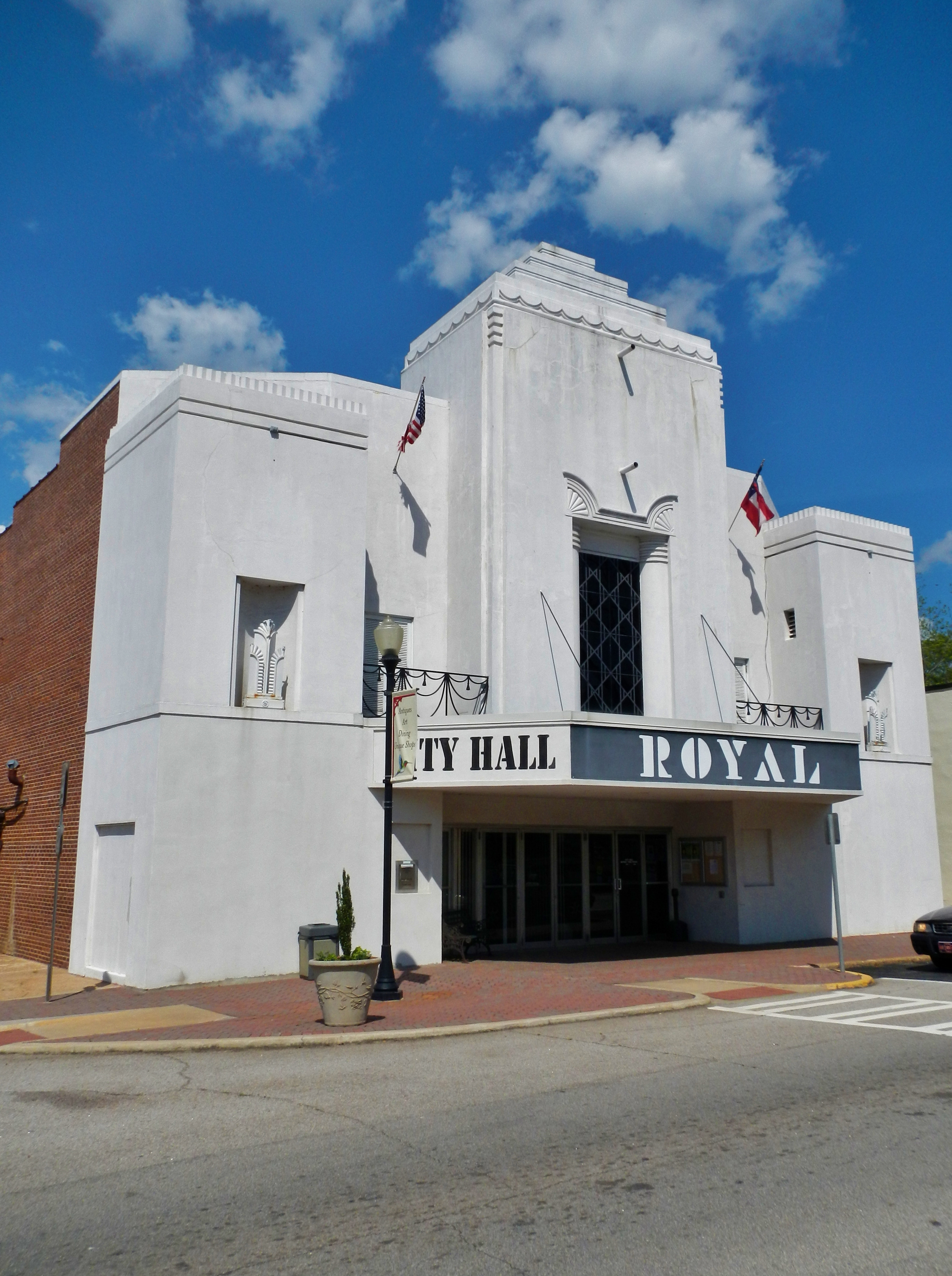 The Royal Theater was built in 1937. The building currently serves as the City Hall of Hogansville, Troup County, Georgia. It was added to the National Register of Historic Places on June 21, 2001.